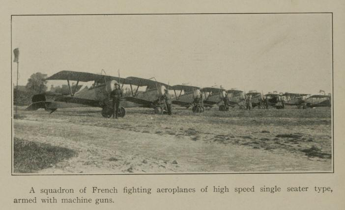 A squadron of French planes.